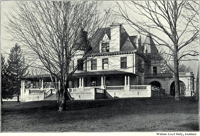 The residence of Cyrus Curtis in Wyncote, PA. No longer exists.